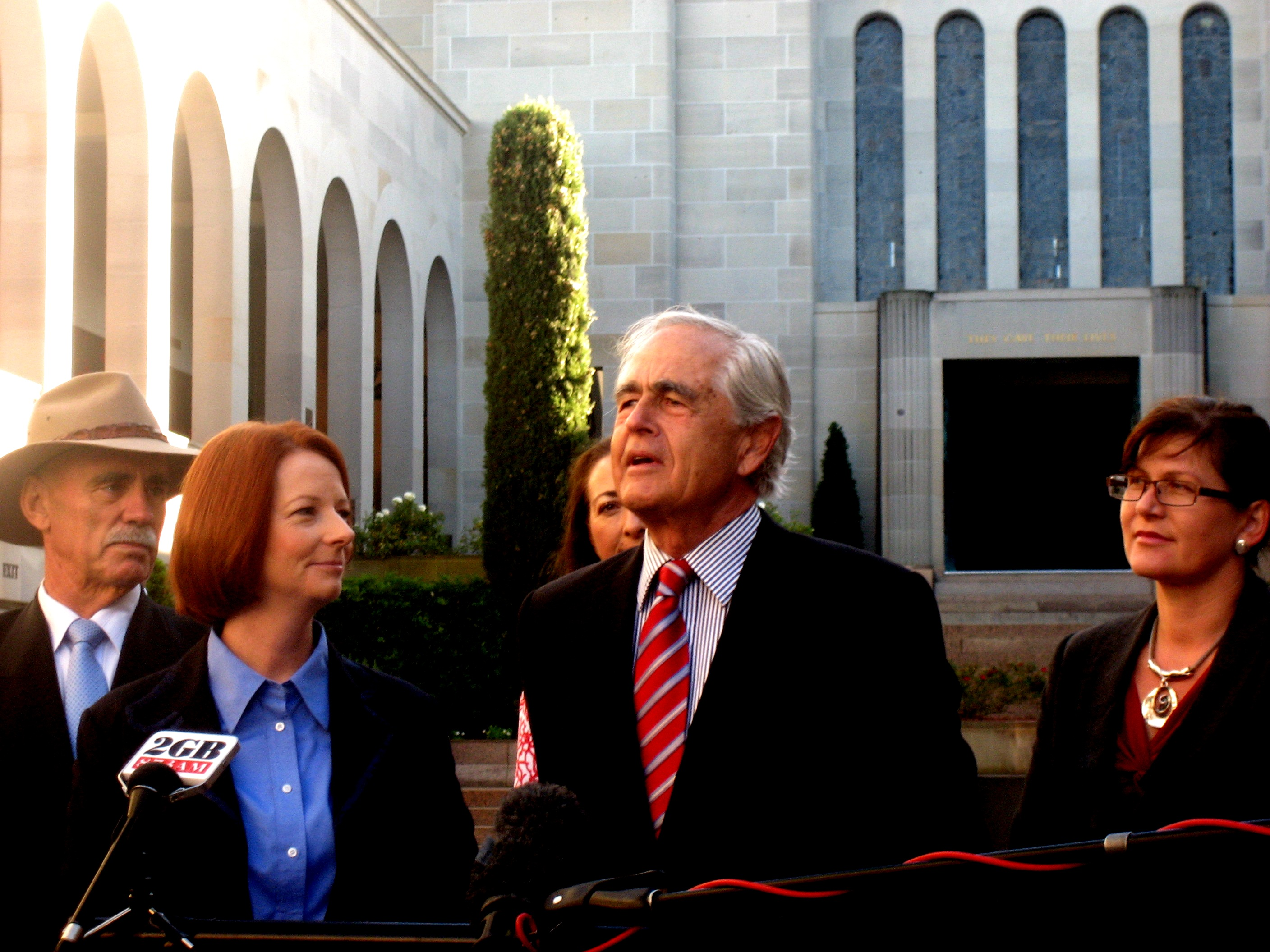 Major General Steven Gower (centre) with, from left to right, Warren Snowdon MP, Prime Minister Julia Gillard, Gai Brodtmann MP and Senator Kate Lundy during an announcement of additional government funding for the Australian War Memorial